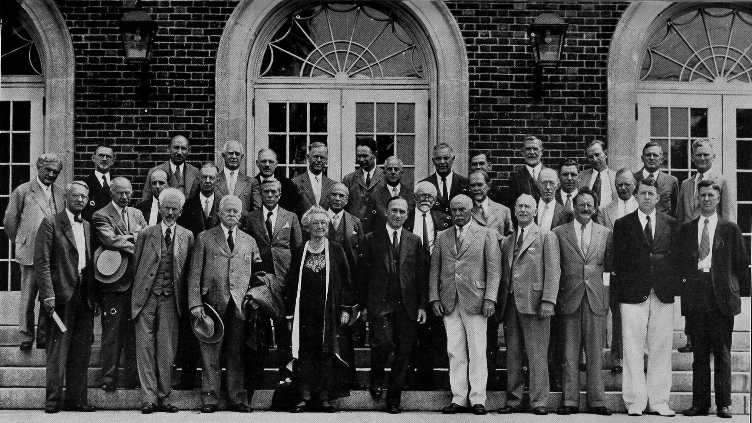 Trustees of the Marine Biological Laboratory at Woods Hole, 1934. Top row: M. J. Greenman, director of the Wistar Institute; Caswell Grave, professor oz Zoology, Washington; E. Newton Harvey, Professor of Physiology, Princeton; Walter E. Garrey, Professor of Physiology, Vanderbilt School of Medicine; W. C. Allee, Professor of Zoology, Chicago; E. R. Clark, Professor of Anatomy, Pennsylvania; Lawrason Riggs, Treasurer of the Marine Biological Laboratory, D. H. Tennent, Professor of Biology, Bryn Mawr; Robert Chambers, Professor of Biology, New York University; C. C. Speidel, Professor of Anatomy, Virginia; G. H. Parker, Professor of Zoology, Harvard; Franz Schrader; Professor of Zoology, Columbia; H. B. Goodrich; Professor of Biology, Wesleyan; B. H. Willier, Professor of Zoology, Chicago. Middle rows: H. C. Bumpus, Brown; B. M. Dugger, Professor of Physiological and Economic Botany, Wisconsin; L. L. Woodruff, Professor of Protozoology, Yale; C. R. Stockard, Professor of Anatomy, Cornell Medical College; R. S. Lillie, Professor of General Physiology, Chicago; E. B. Wilson, Emeritus Professor of Zoology, Columbia; T. H. Morgan, Professor of Biology, California Institute; R. G. Harrison, Professor of Comparative Anatomy, Yale; L. V. Heilbrunn, Associate Professor of Zoology, Pennsylvania; Frank P. Knowlton, Professor of Physiology, Syracuse College of Medicine. Bottom row: E. G. Conklin, Emeritus Professor of Zoology, Princeton; H. H. Donaldson, Professor of Neurology, Wistar Institute; W. B. Scott, Emeritus Professor of Geology and Paleontology, Princeton; Cornelia M. Clapp, Emeritus Professor of Zoology, Mount Holyoke; M. H. Jacobs, Professor of General Physiology, Pennsylvania; F. R. Lillie, Professor of Embryology, Chicago; Gary N. Calkins, Professor of Zoology, Columbia; A. P. Mathews, Professor of Biochemistry, Cincinnati; W. R. Amberson, Professor of Physiology, Tennessee; Charles Packard, Assistant Professor of Zoology, Columbia.